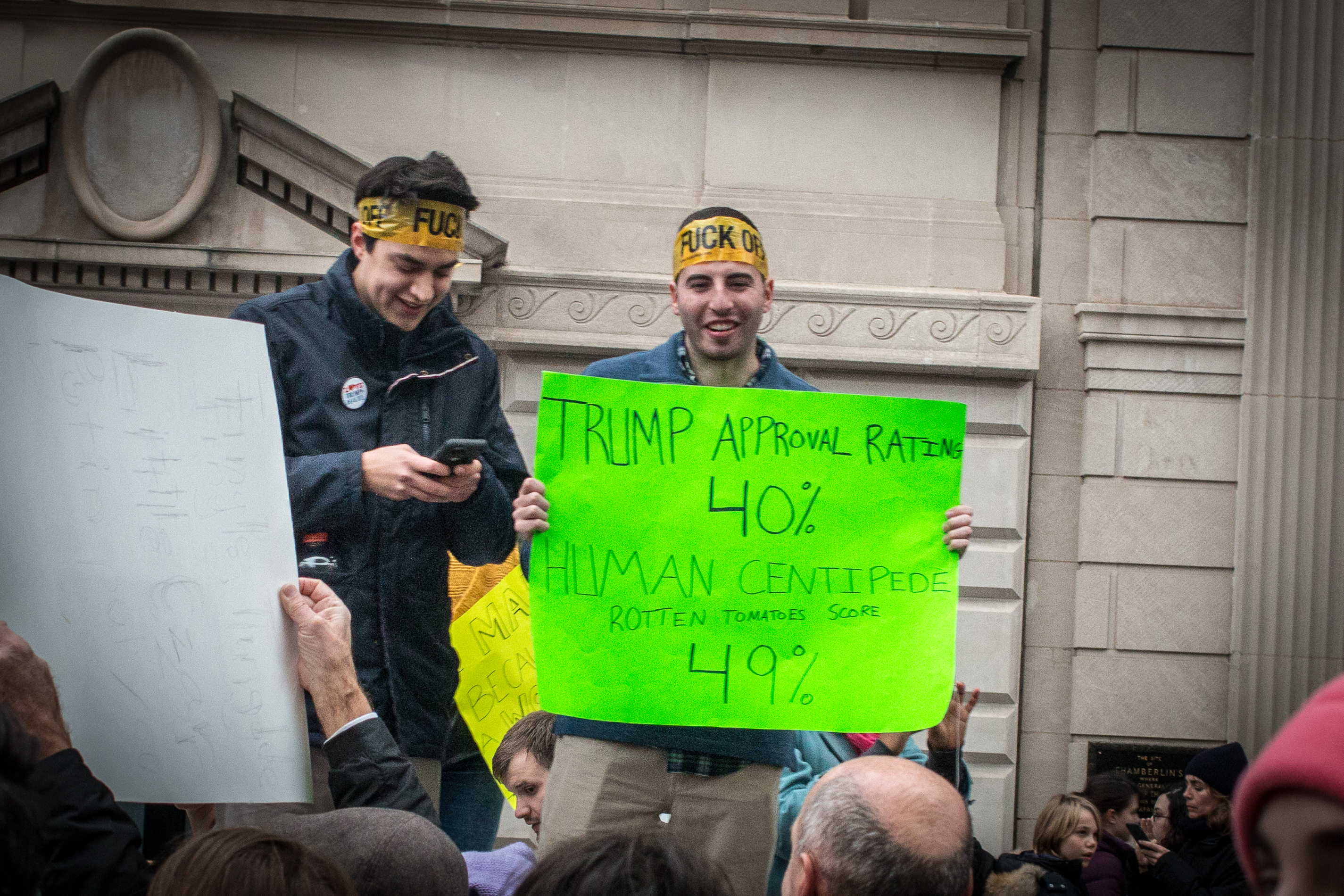 January 21, 2017